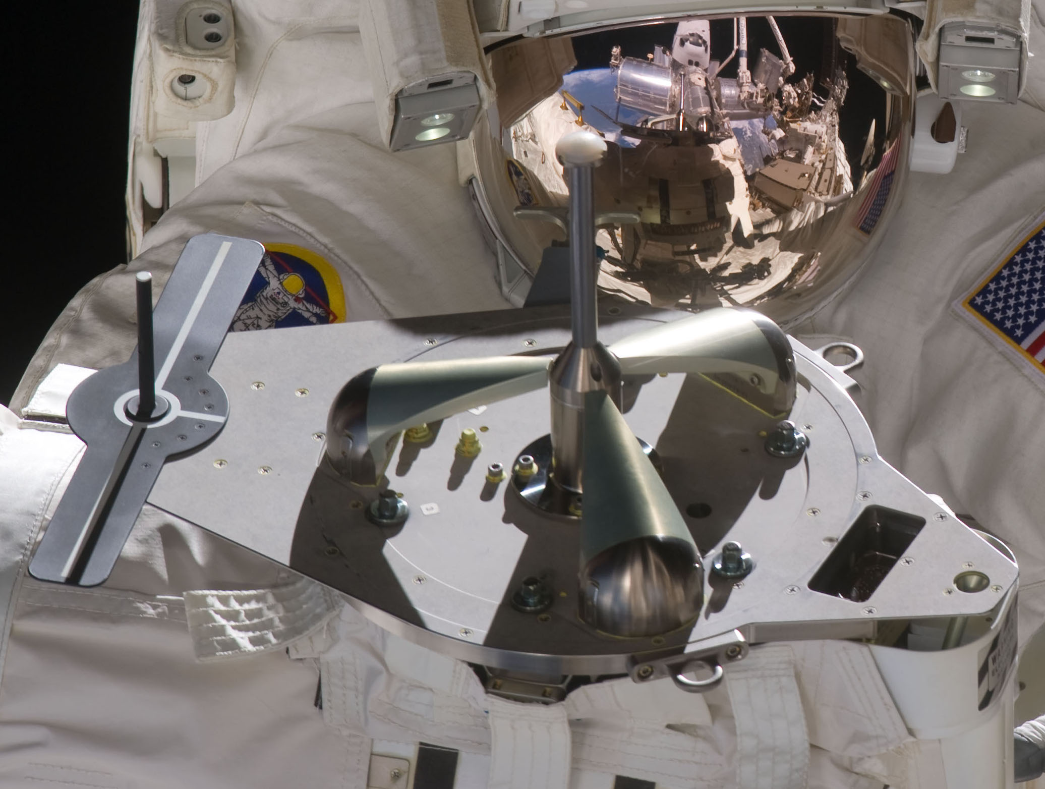 S134-E-011090 (27 May 2011) --- NASA astronaut Michael Fincke participates in the mission's fourth session of extravehicular activity (EVA) as construction and maintenance continue on the International Space Station. During the seven-hour, 24-minute spacewalk, Fincke and astronaut Greg Chamitoff (out of frame), both STS-134 mission specialists, completed the primary objectives for the spacewalk, including stowing the 50-foot-long boom and adding a power and data grapple fixture to make it the Enhanced International Space Station Boom Assembly, available to extend the reach of the space station's robotic arm.